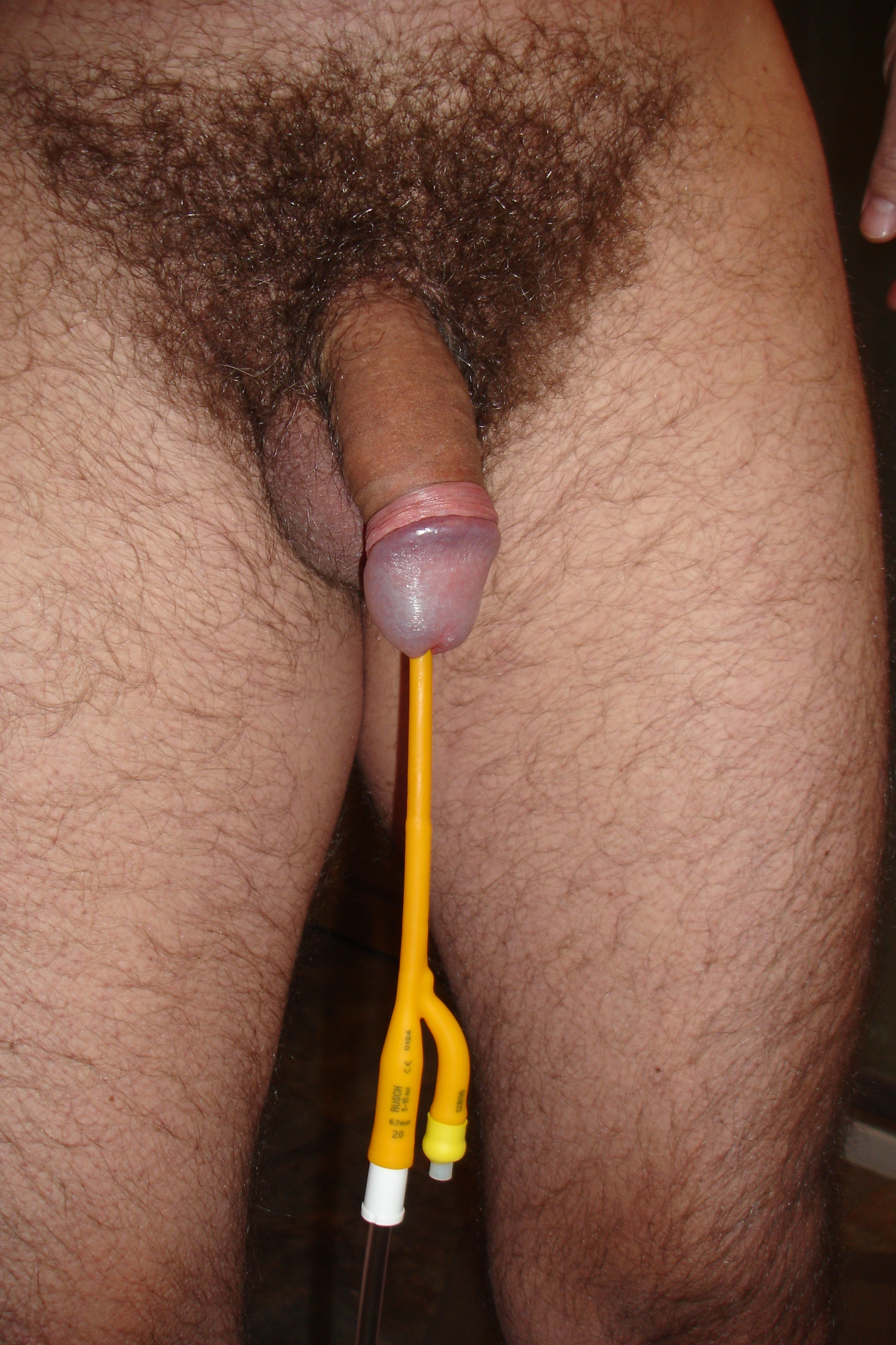 Foley catheter CH 20